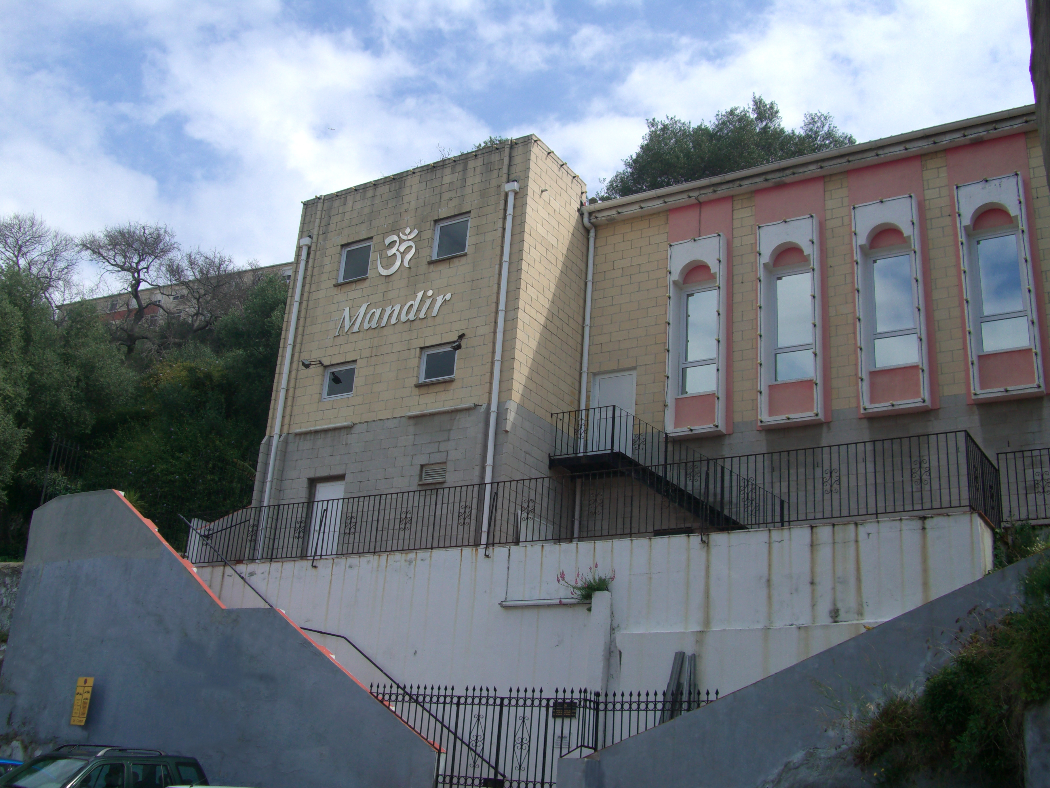 Gibraltar Hindu Temple exterior view